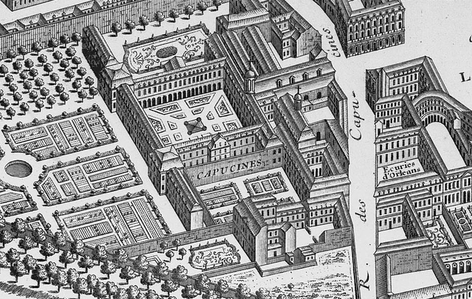 Ancien couvent des Capucines, Rue de la Paix, Paris.